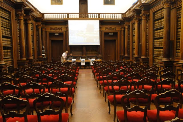 Lecture hall in the old building of the University, Padua